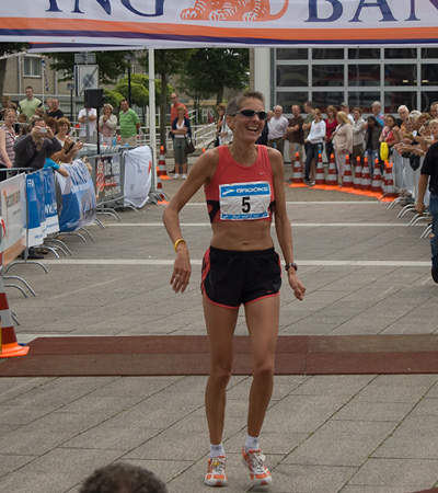 Finishing 1st in the Zeewolde Half Marathon 2007